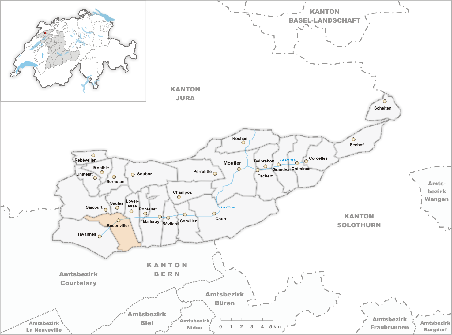 Municipality Reconvilier